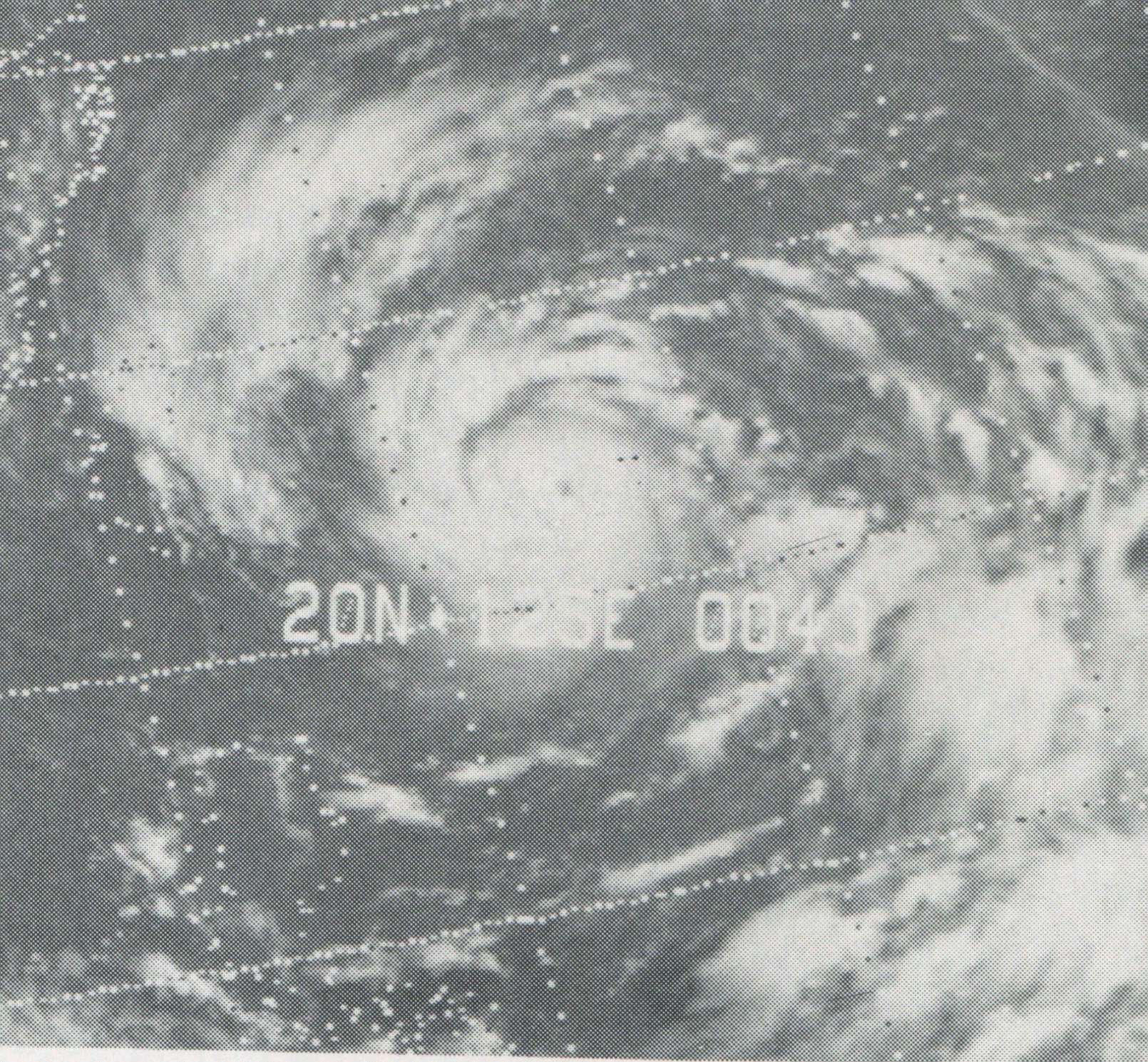 This weather satellite image of Typhoon Nina was taken on August 2, 1975